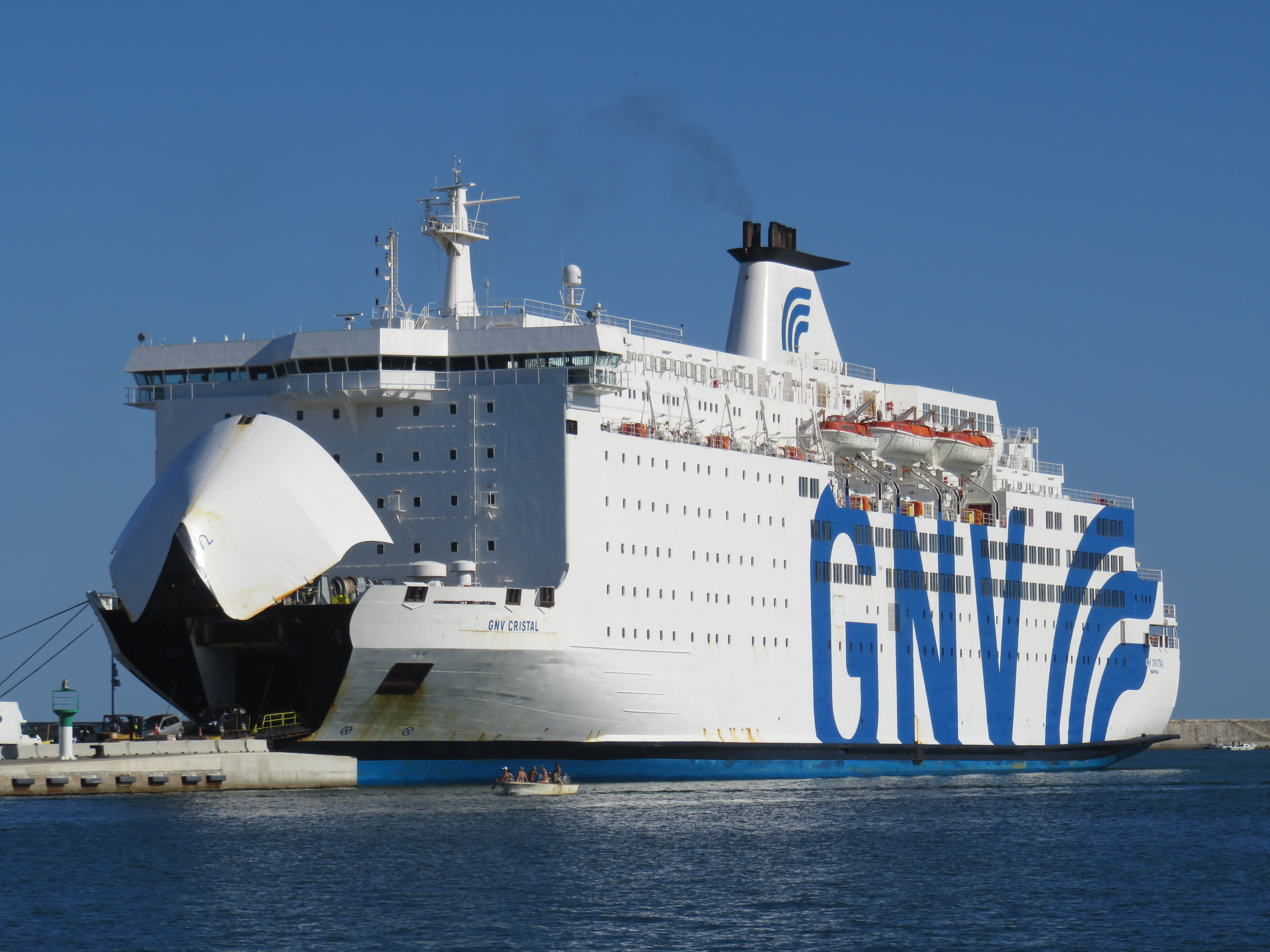 The GNV Cristal (Grandi Navi Veloci) moored in the Bassin aux Pétroles (Sète, France) on August 26, 2018.